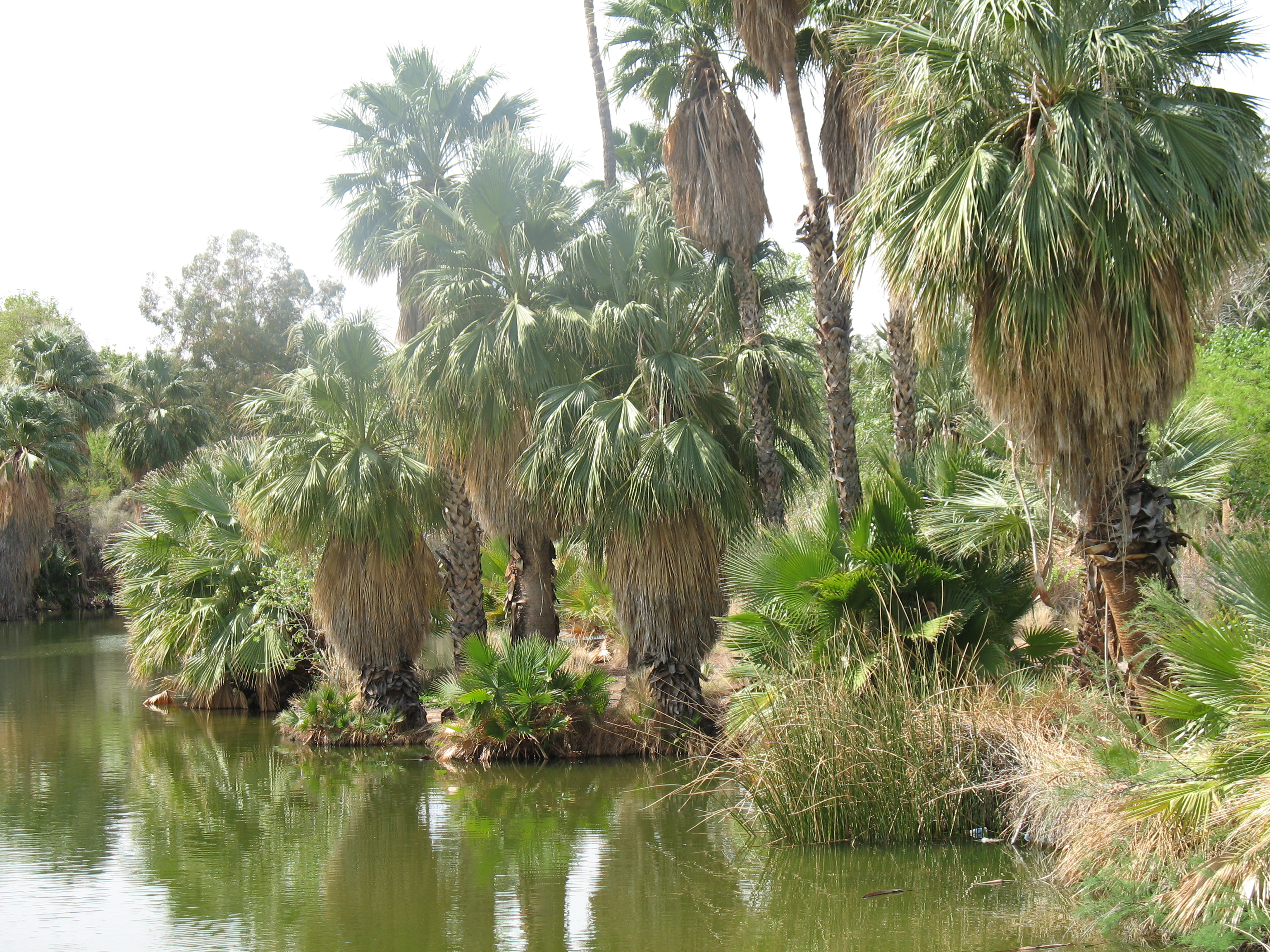 Palms at the Phoenix Zoo in Phoenix, Arizona